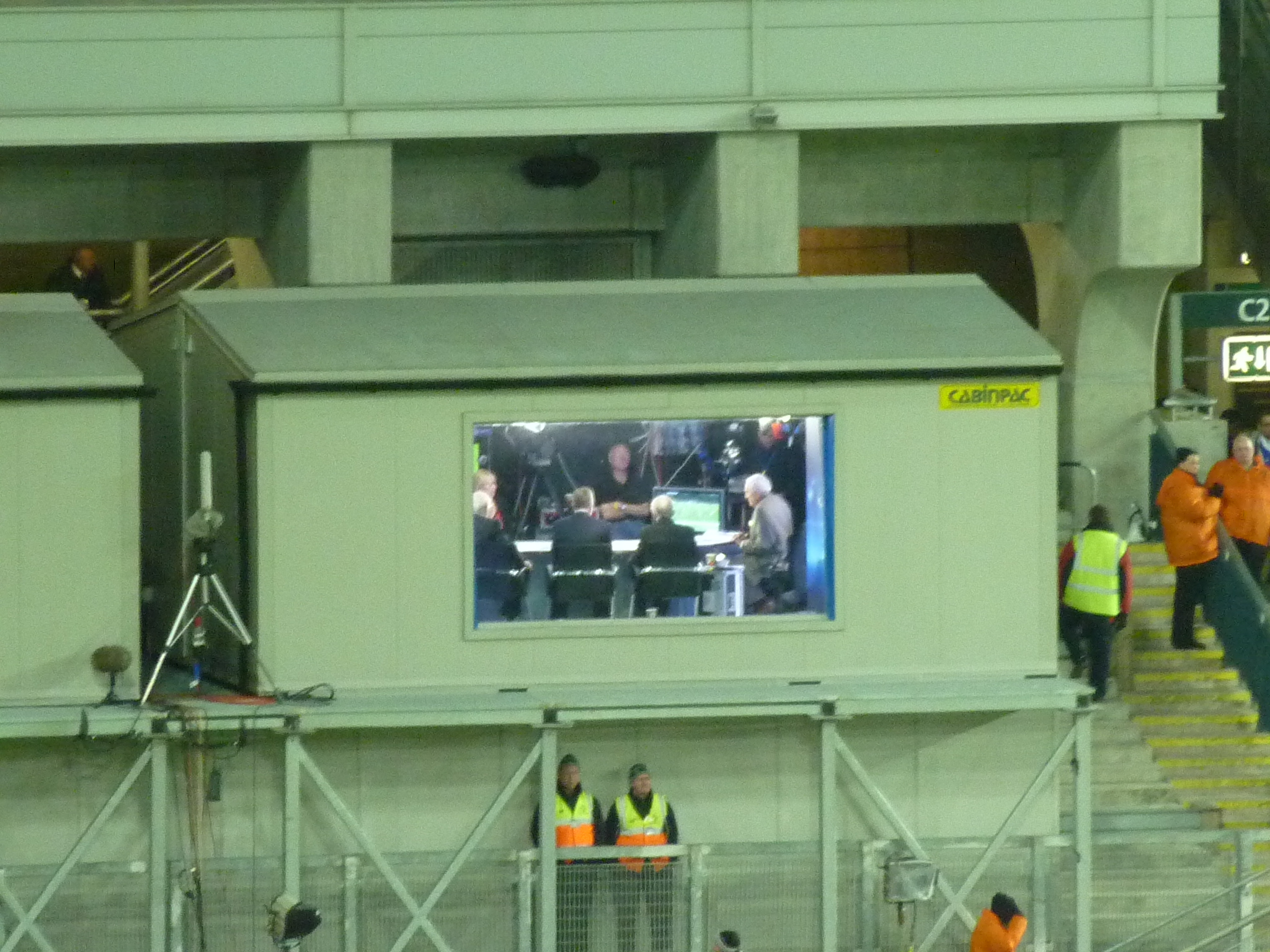 The RTÉ Sport television panel at the Ireland/France Croke Park playoff.